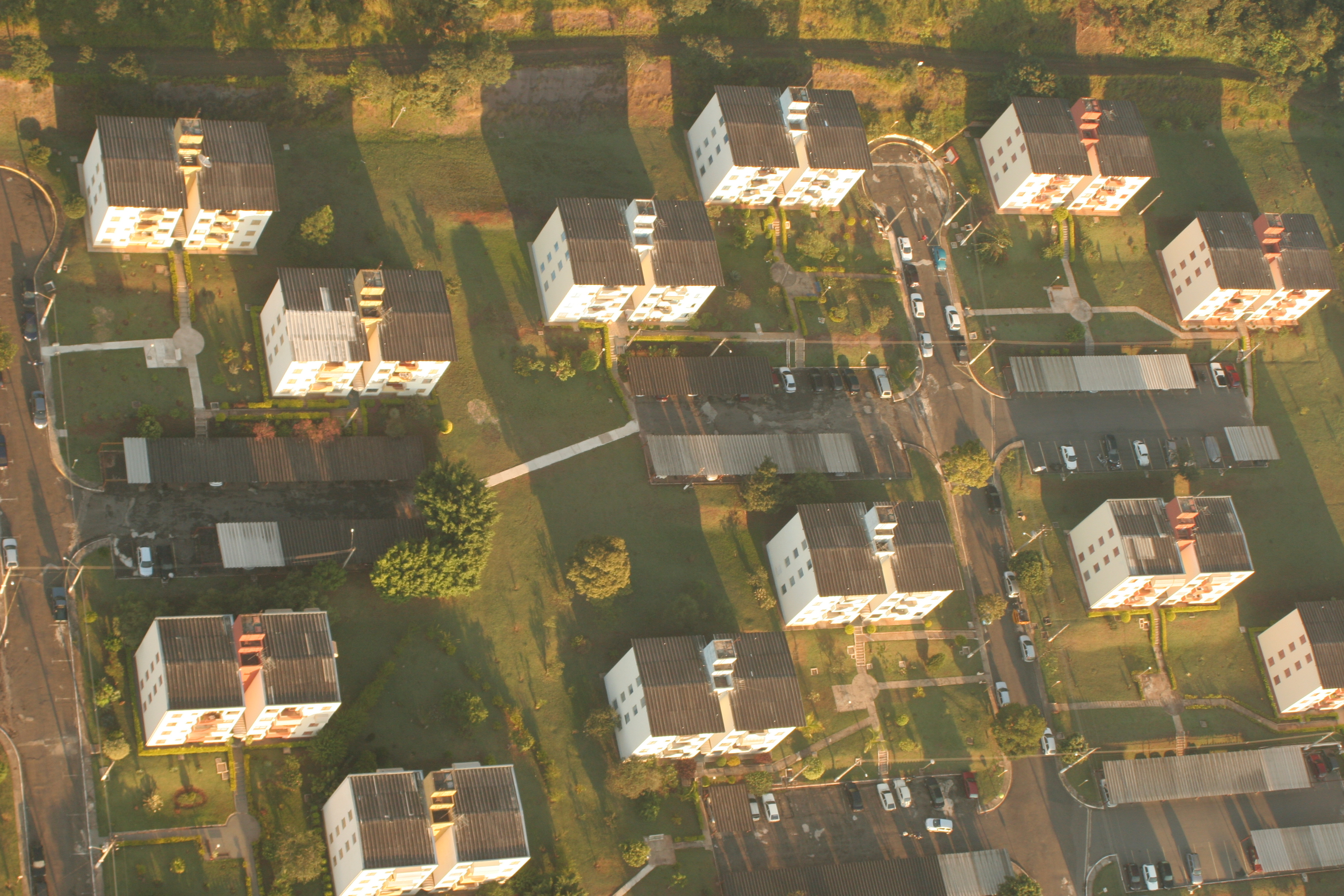 Buildings of popular home in Piracicaba, São Paulo, Brazil.